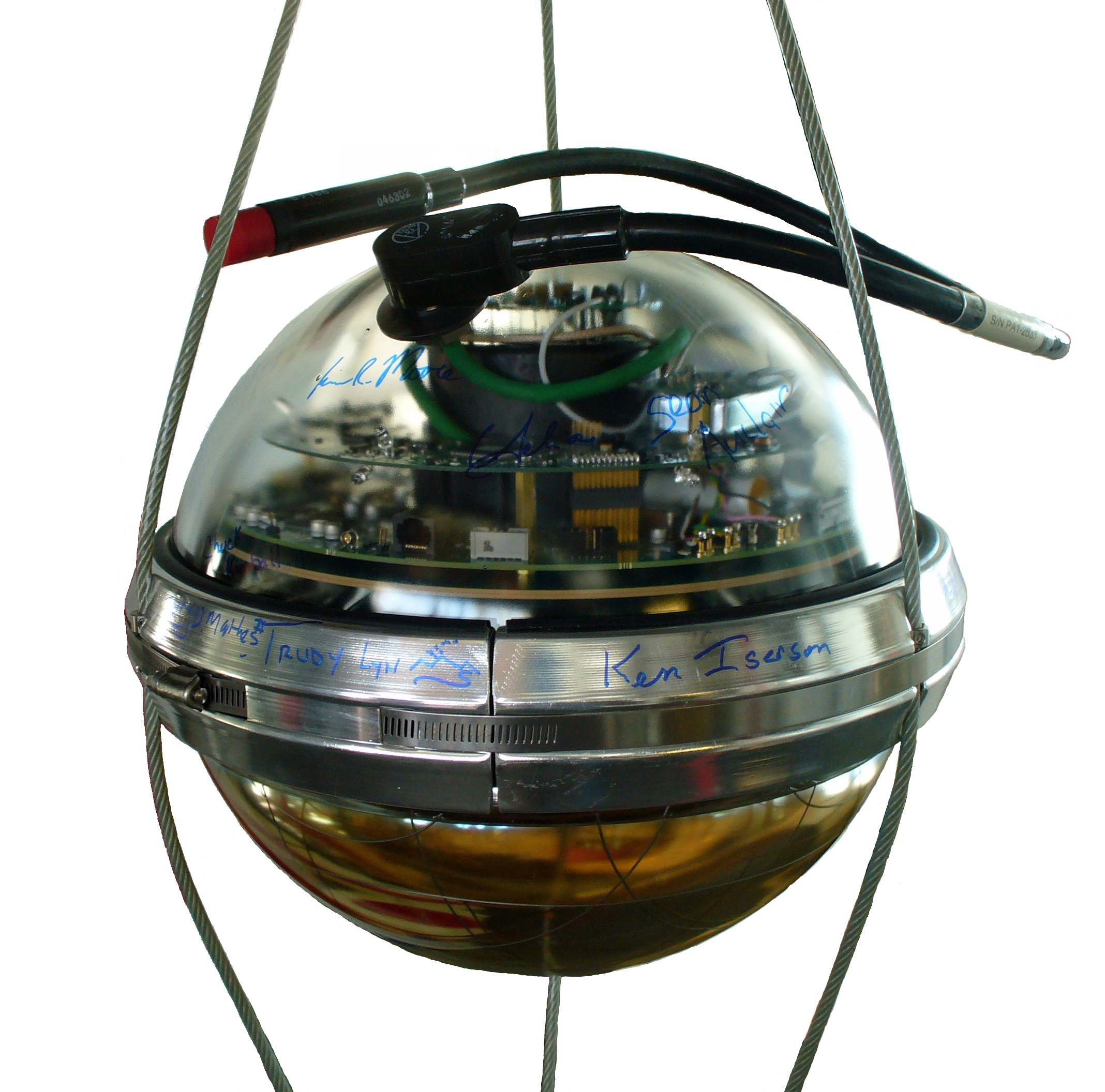 An IceCube digital optical module (DOM) "taklampa" to be deployed in hole #85. IceCube drill camp, December 13, 2009